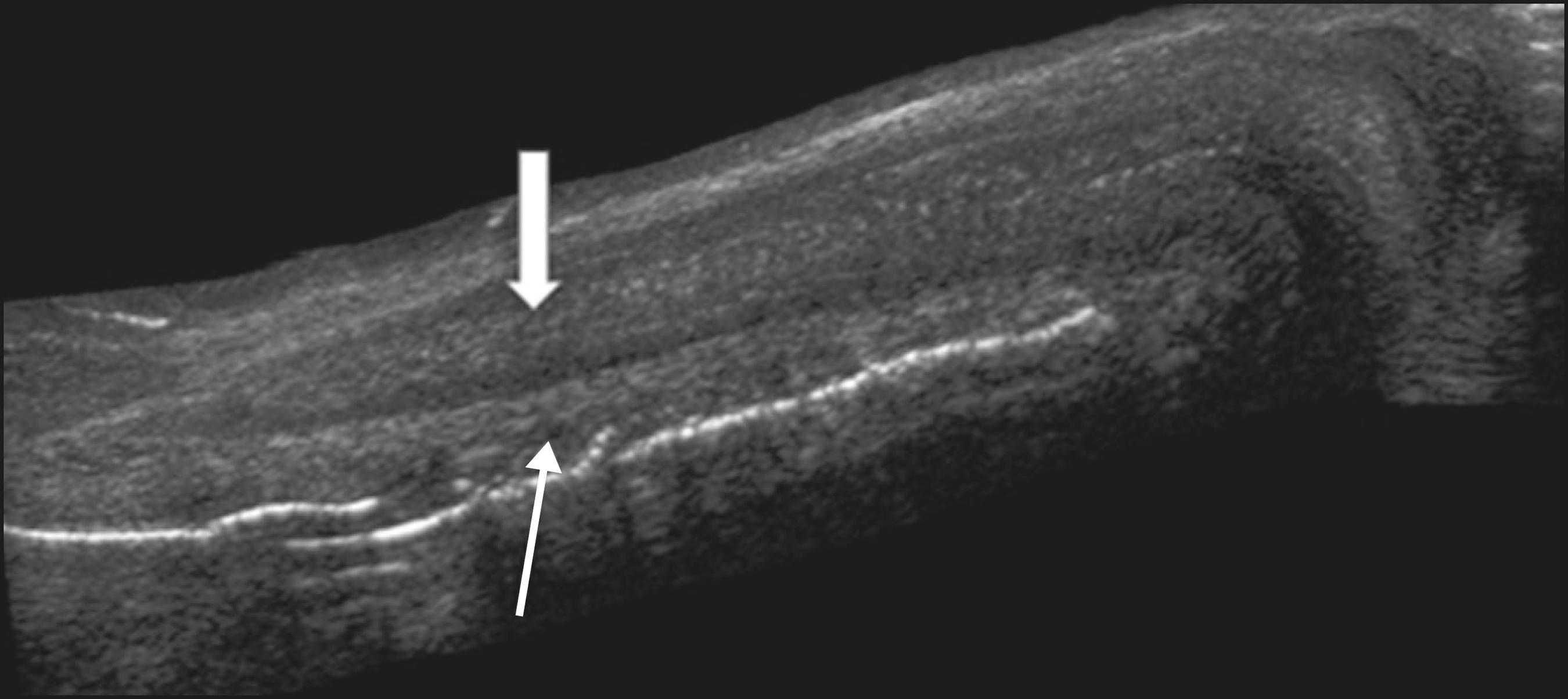 edit For context, see Penile ultrasonography.